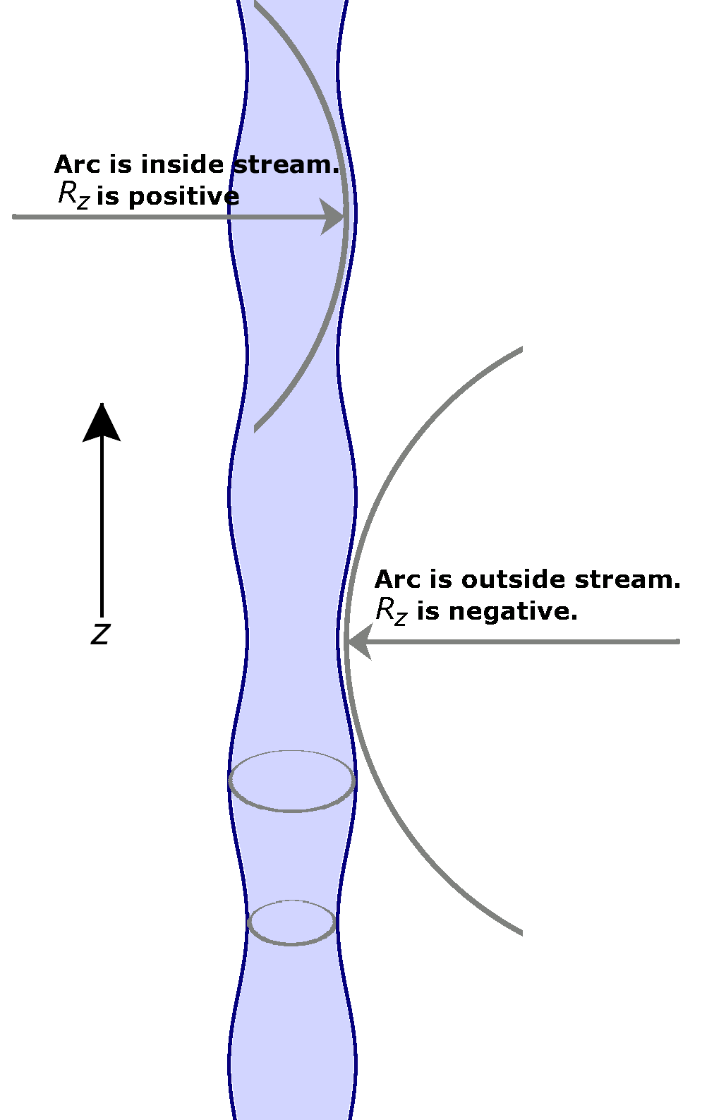 Diagram of liquid jet in process of breaking into drops.